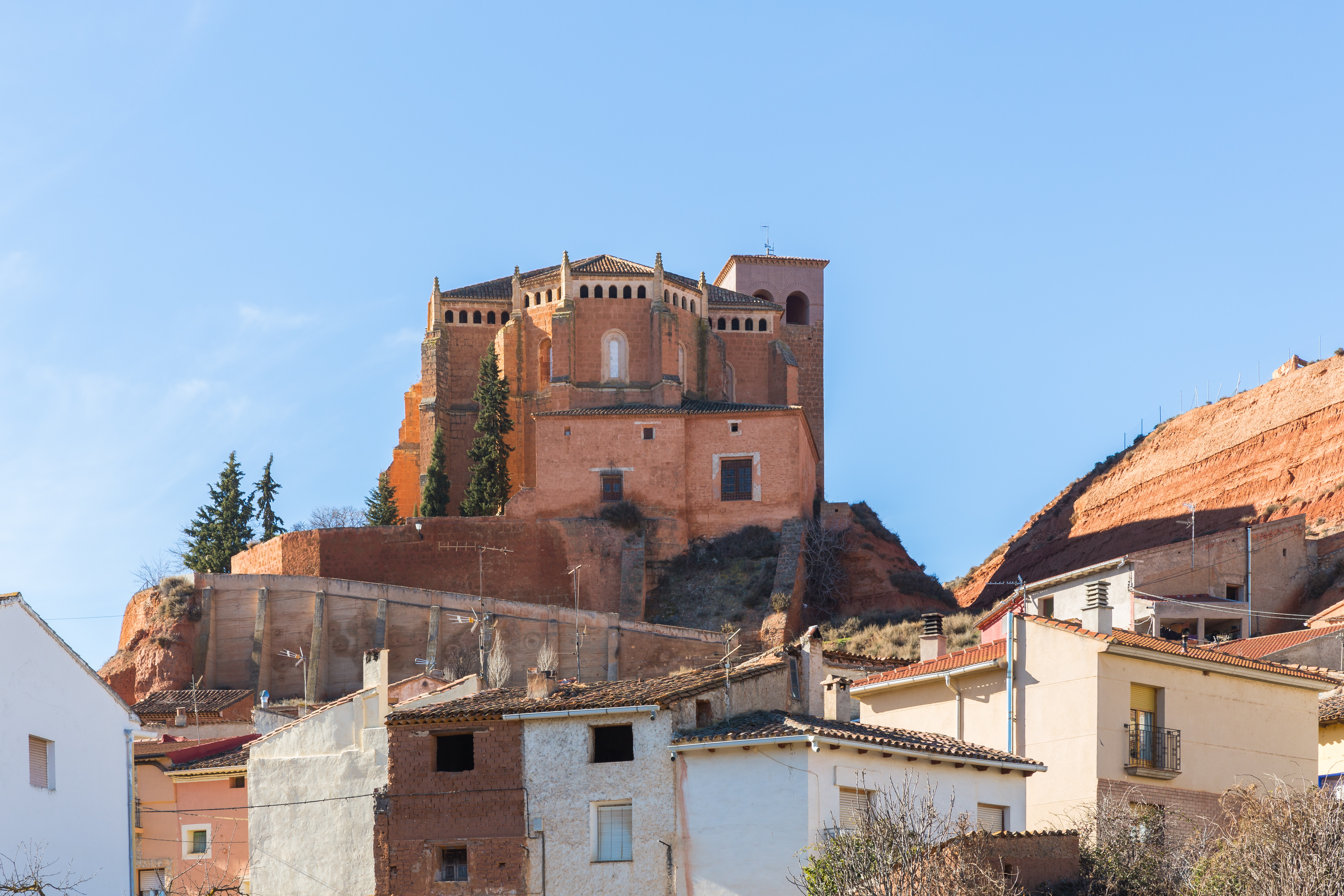 St Michael church, Ibdes, Zaragoza, Spain